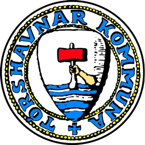 The insignia of Tórshavn in the Faroe Islands